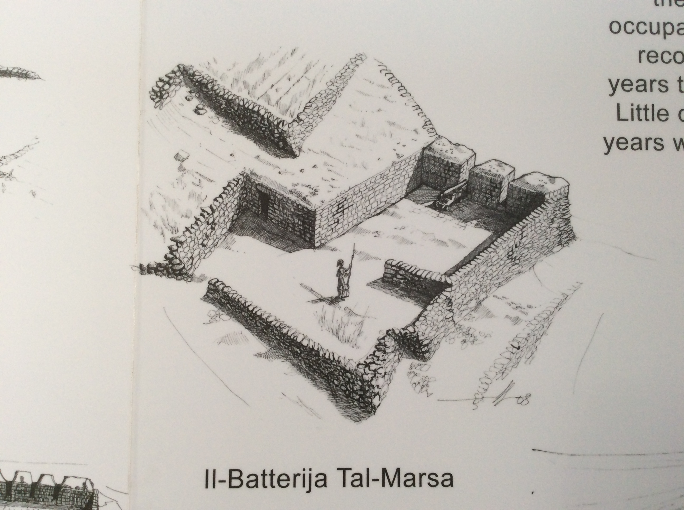 Valletta